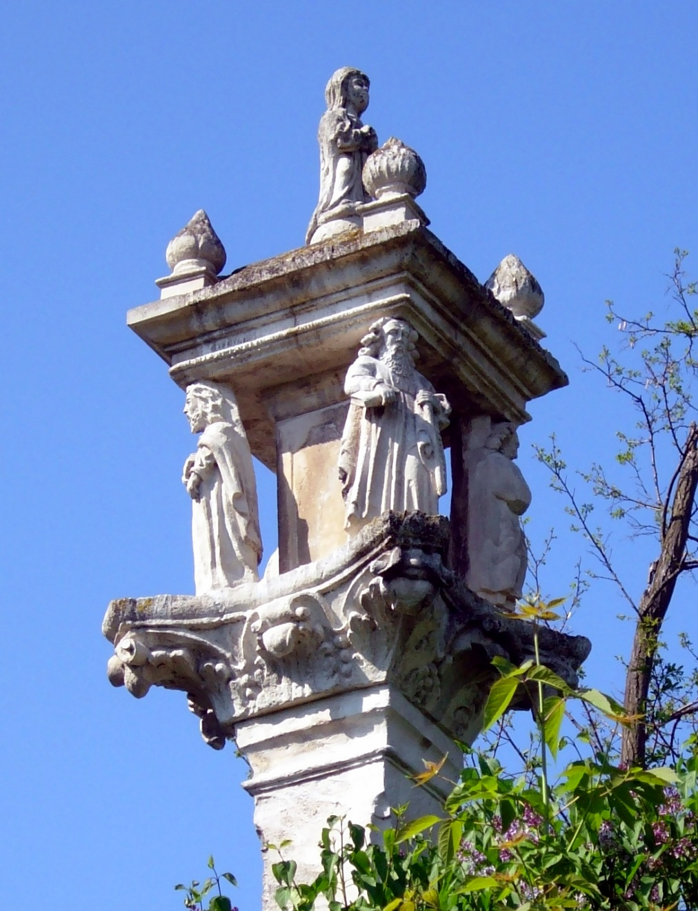 Small chapel in Stary Korczyn, Poland